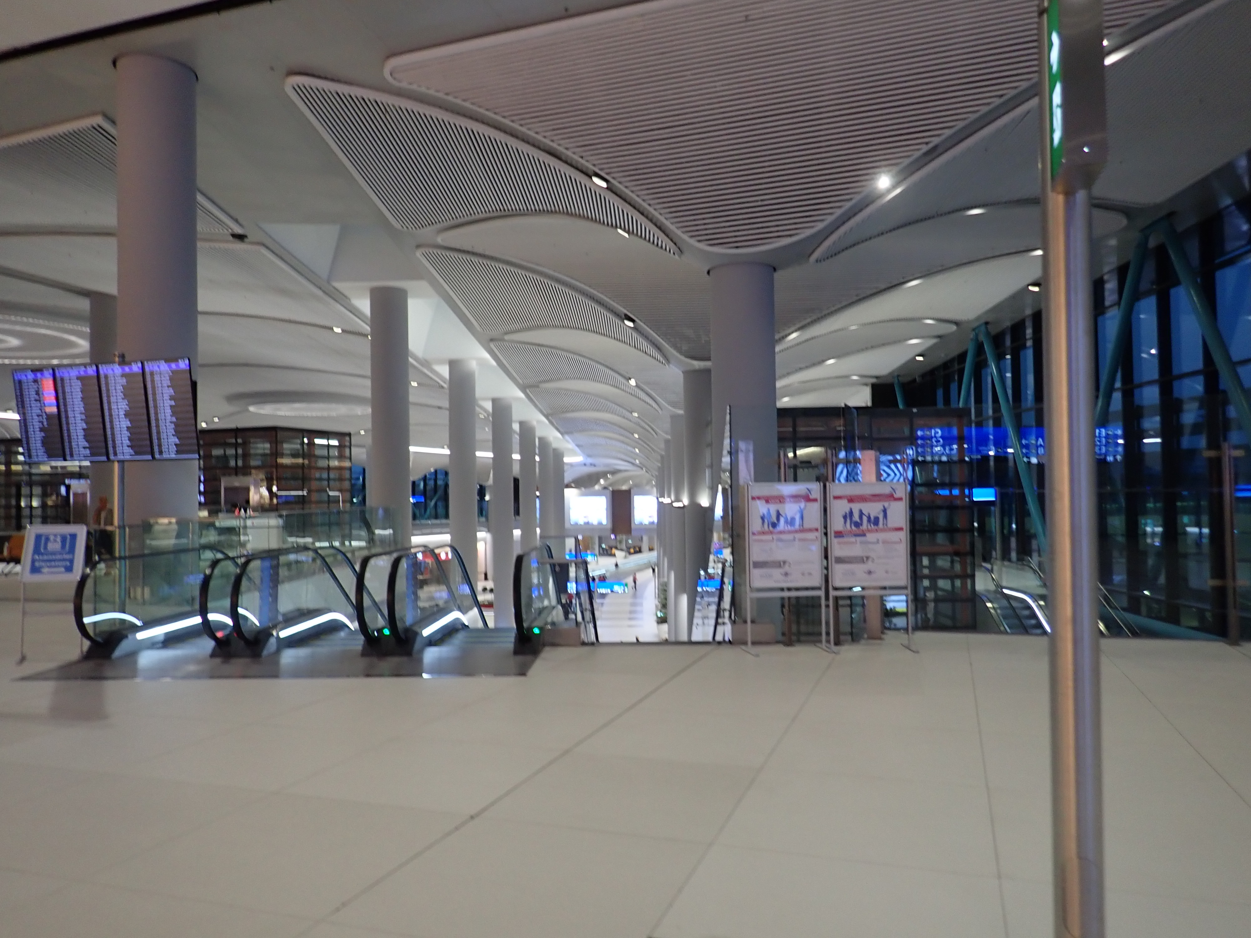 Istanbul Airport (ISL) start of D section